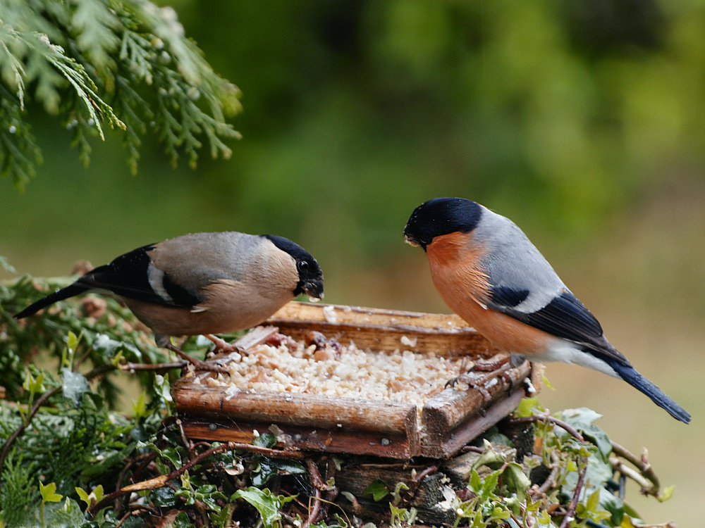 A pair of Eurasian Bullfinches feeding at a bird table.